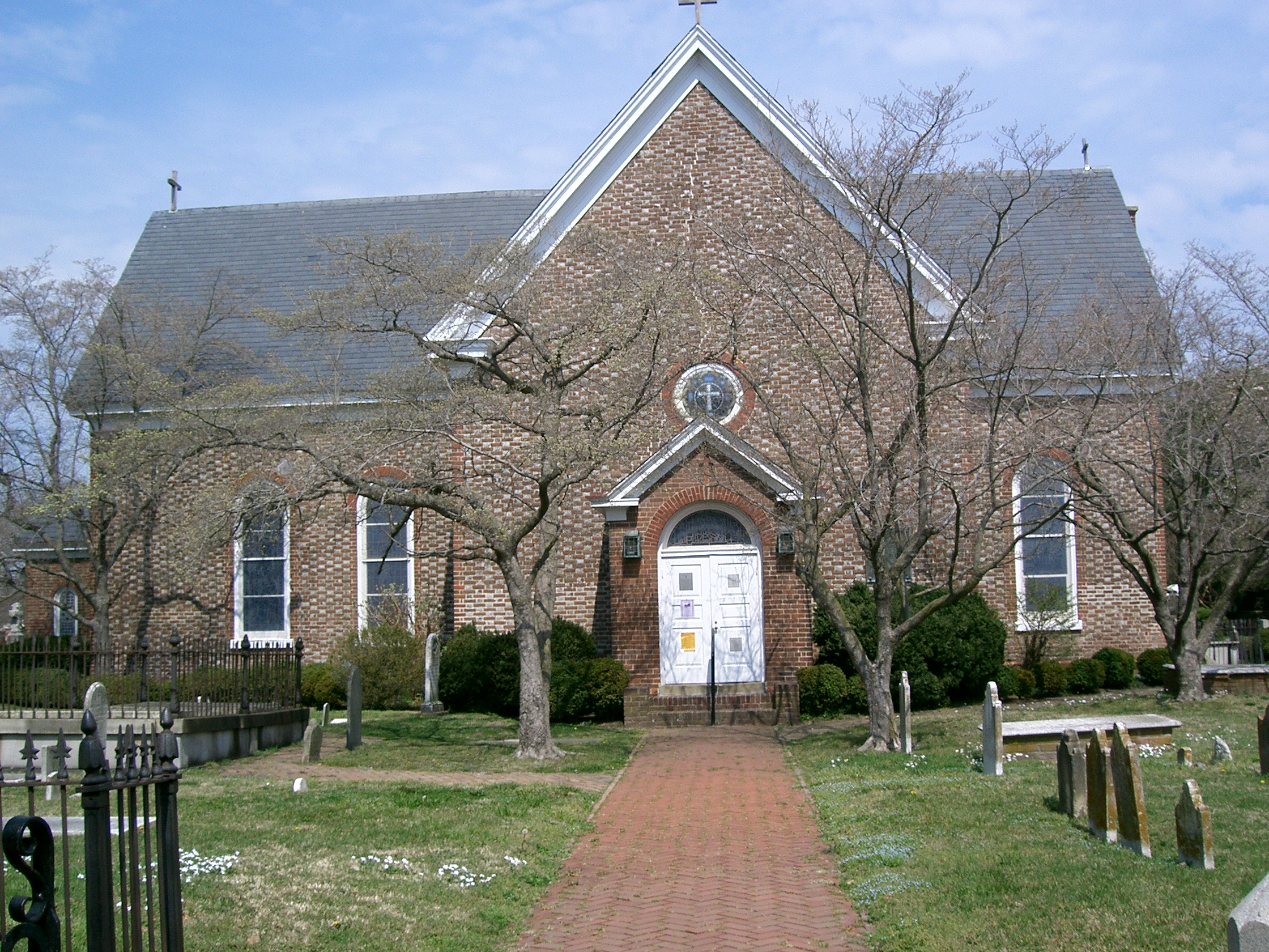 View of the south side of St. John's Episcopal Church, Hampton, VA